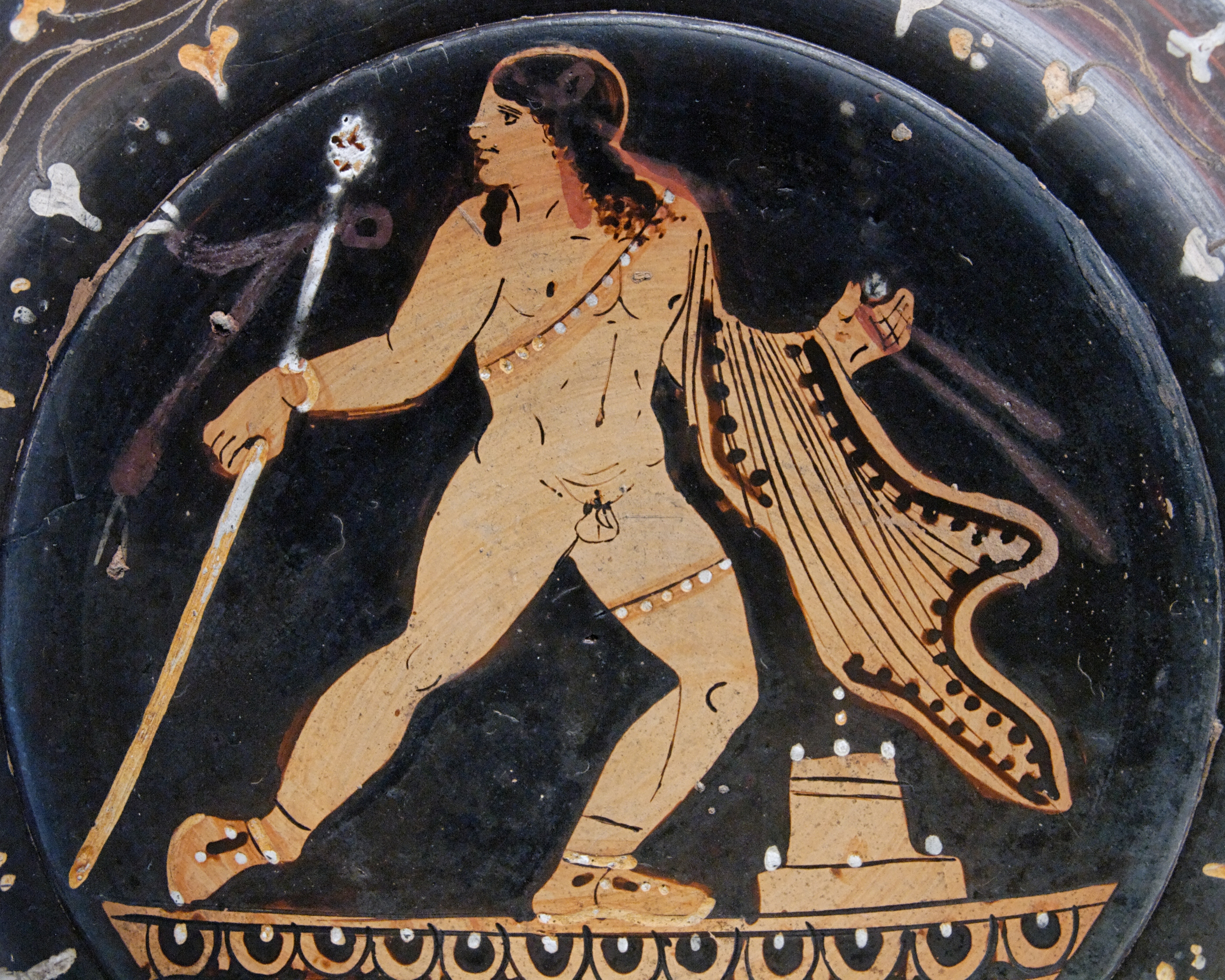 Dionysos holding his thyrsus. Detail of the tondo of a Paestan red-figure footless kylix, ca. 360–350 BC.